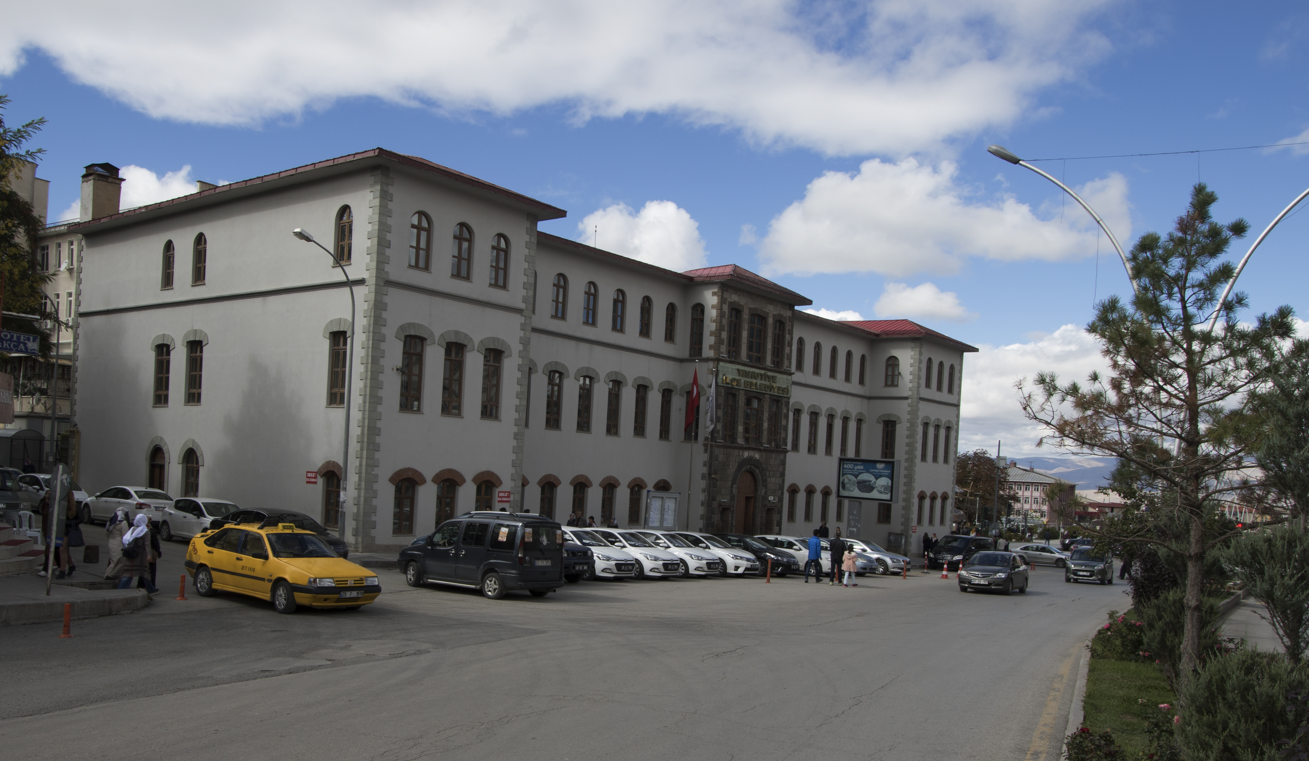 Municipality Building of Yakutiye, Erzurum - Turkey.